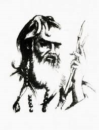 the picture of babatahr